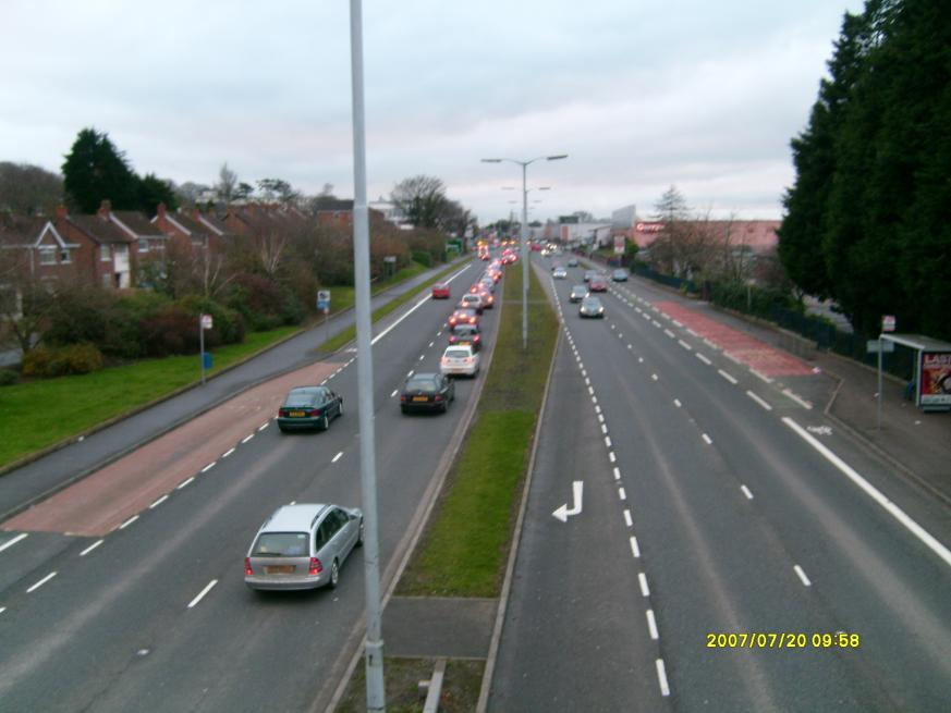 A55 Bun a' Chnoic, Cnoc na mBréadach, Béal Feirste, Condae an Dúin (radharc siar)